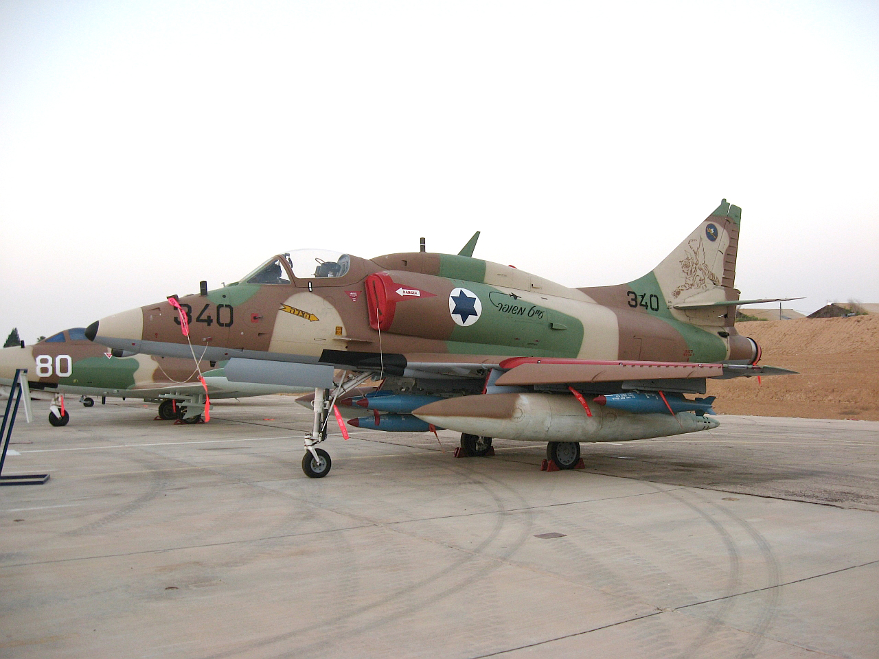 A-4N 340 of the Israeli Air Force, dusk June 26, 2008, Hatzerim AFB